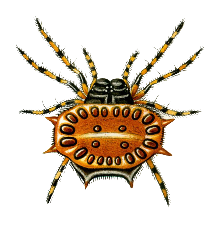 Gasteracantha cancriformis (Latreille) = Gasteracantha cancriformis (Linnaeus, 1758)